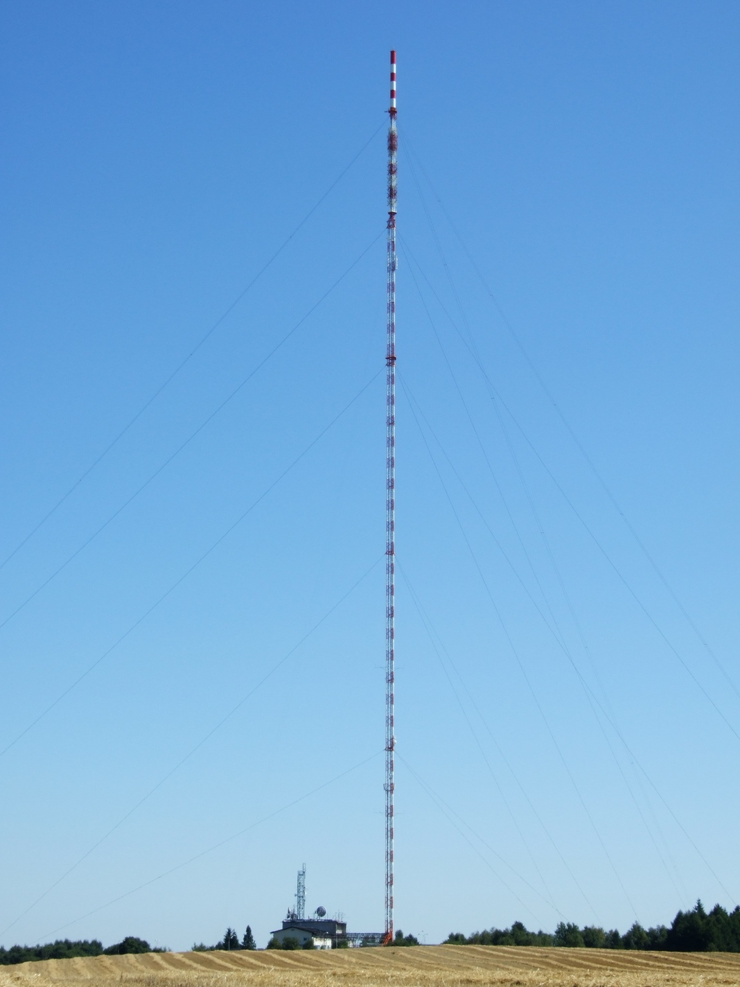 Tower of transmitter Krašov